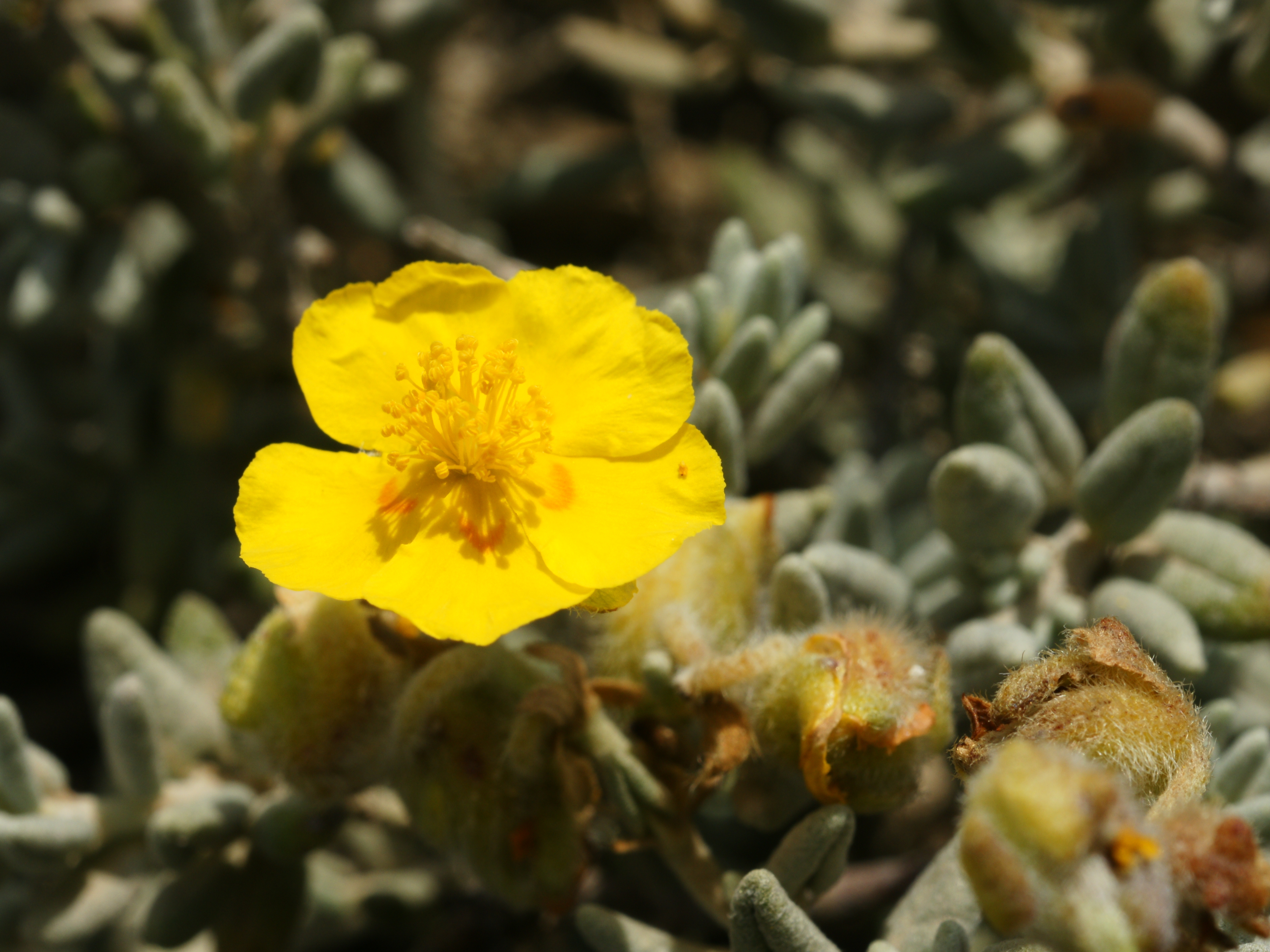 A rare stockrose. Approximate co-ordinates: plant located within 5 km from Putzu Idu, Sardinia, Italy Helianthemum caput-felis is included in the Annex of the Berne Convention and it is protected by European legislation. It is categorized as rare by the IUCN